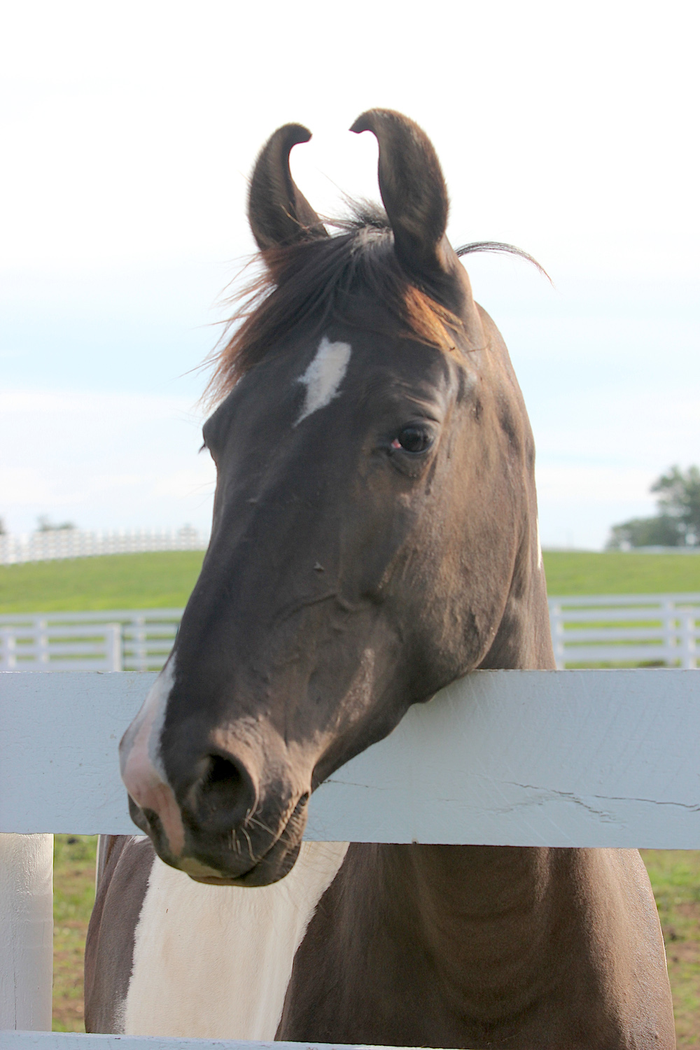 Marwari Filly at the Kentucky Horse park